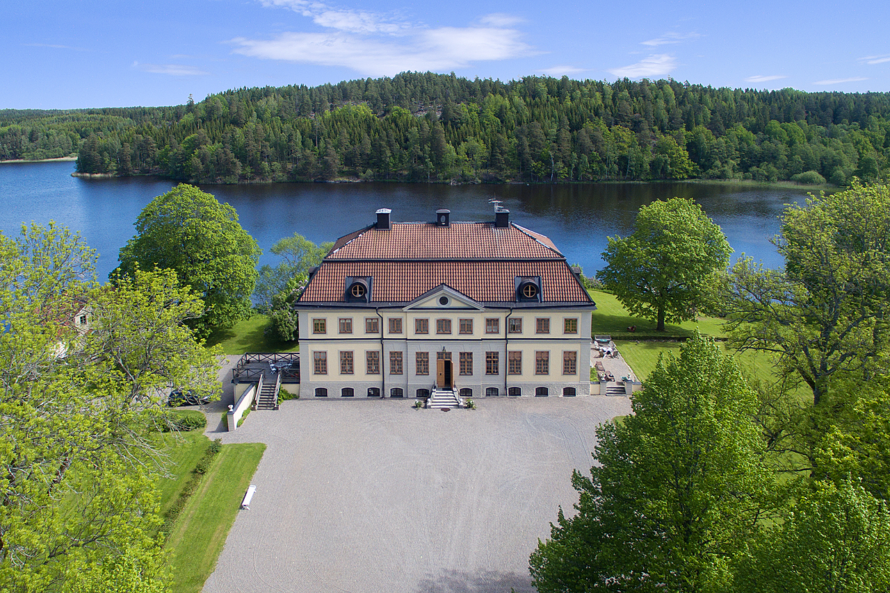 Långdunker framifrån med lillsjön i bakgrunden.